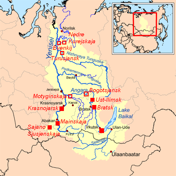 Hydroelectric stations of the Yenisei river basin. Adapted and modified from oroginal by Karl Musser.